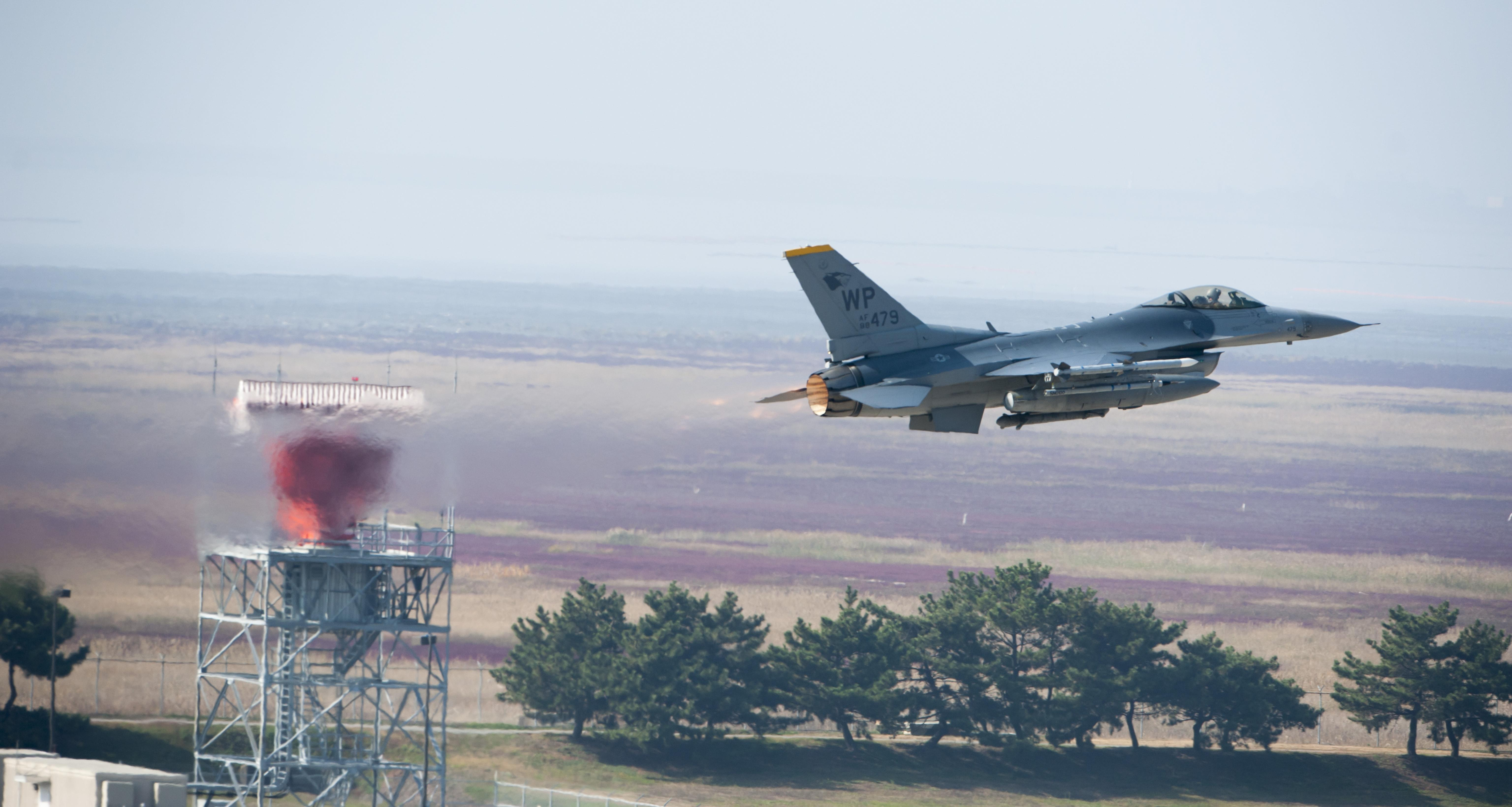 An F-16 Fighting Falcon takes off for a Max Thunder sortie Nov. 5, 2013, at Kunsan Air Base, South Korea. Airmen from the U.S. Air Force, Marine Corps and the South Korean air force continued their participation in scenarios and planning cycles in a robust exercise setting that simulated combined operations against a hostile force. This combined large-force employment exercise includes 8th Fighter Wing F-16 Fighting Falcons, 51st Fighter Wing A-10 Thunderbolts II and F-16s, Marine Air Group 12 F-18 Hornets, AV-8B Harriers II, 35th Air Defense Artillery Brigade, 18th Wing E-3B Sentries, numerous South Korean air force aircraft and accompanying support personnel. The F-16 is assigned to the 80th Fighter Squadron.